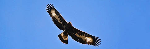 Golden Eagle, Aquila chrysaetos - aged: around first winter